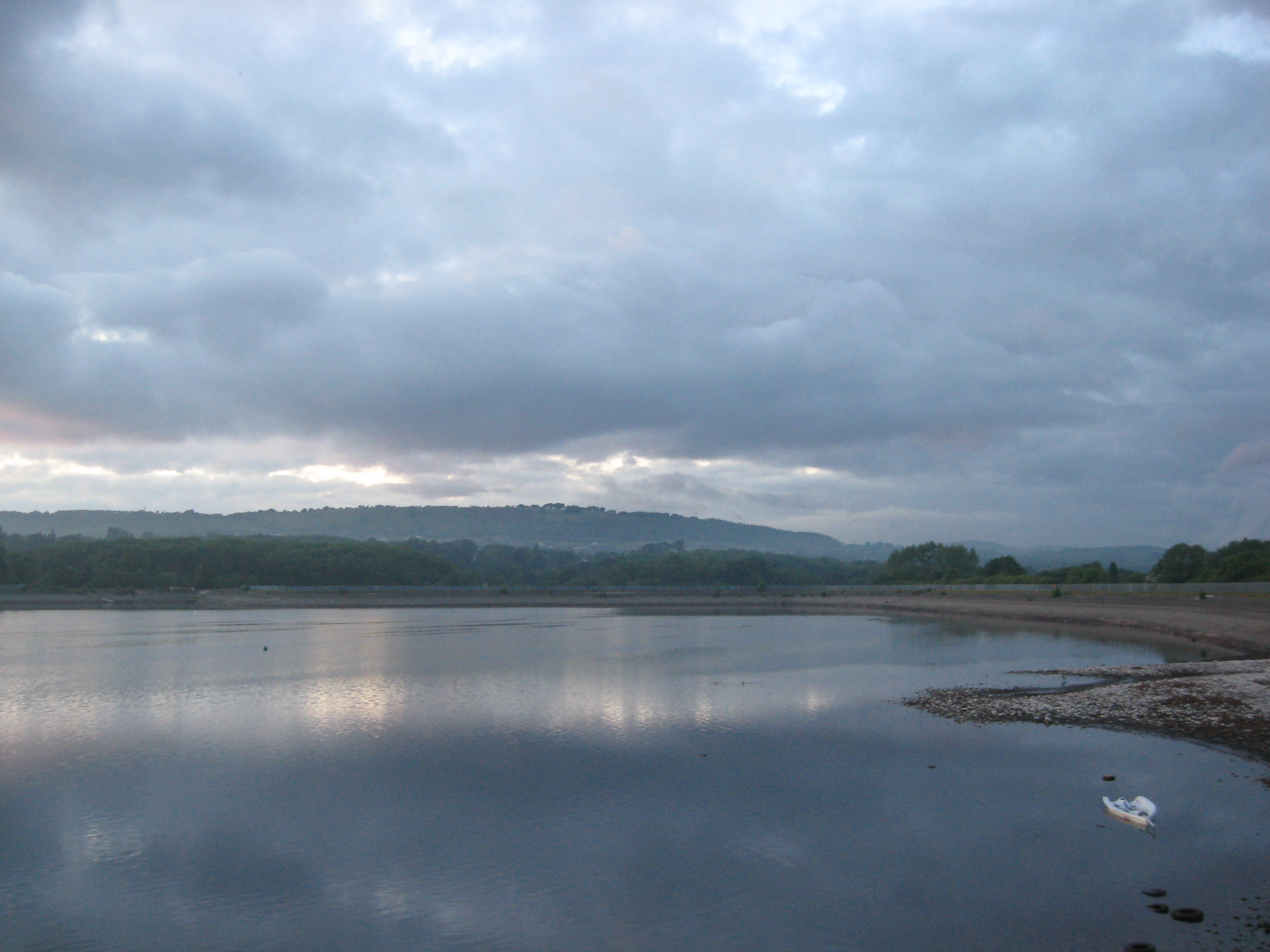 Llanishen reservoir (semi-drained)- north view